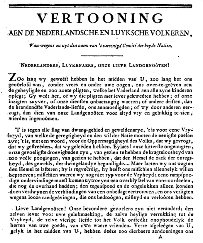 Manifesto of the United Belgians and Liégeois, published on 23 April 1792 by the Committee of United Belgians and Liégeois in Paris. Dutch language version.